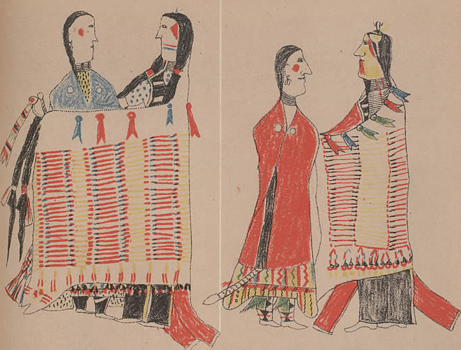 Indian Courting Scenes Original drawings attributed to Big Back, a Cheyenne Indian Richard Irving Dodge